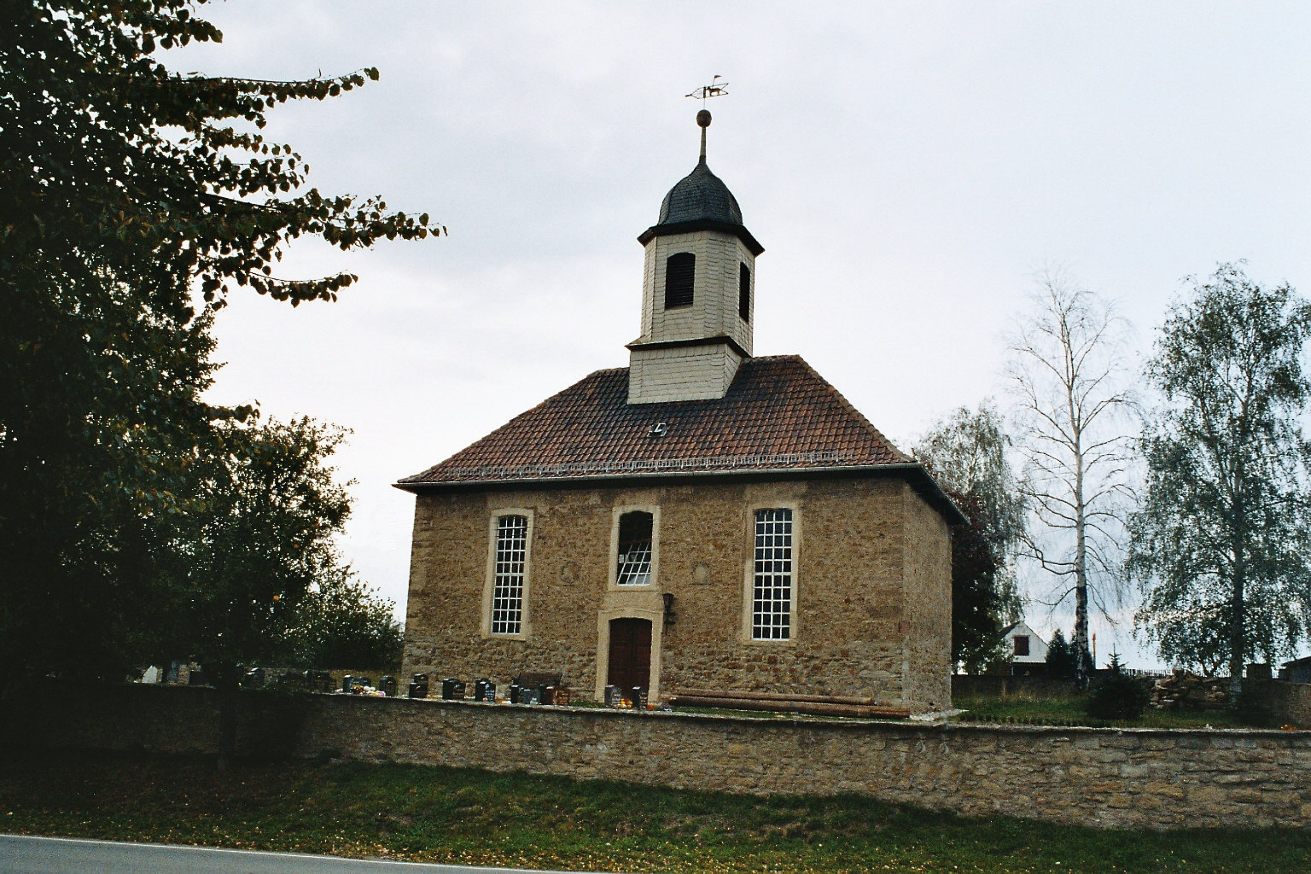 Bethenhausen, the village church